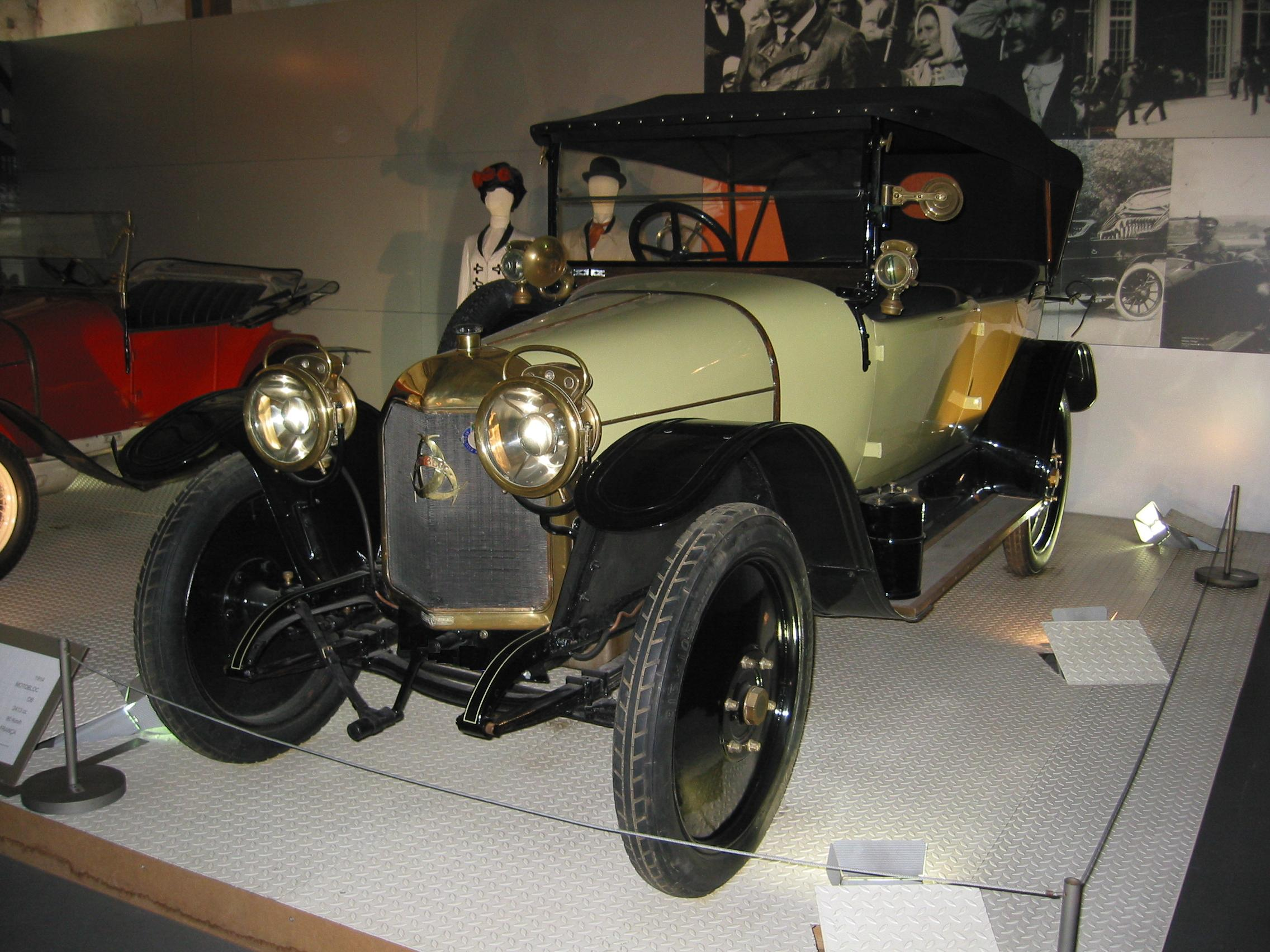 Motobloc 1914 (Country of origin: France)